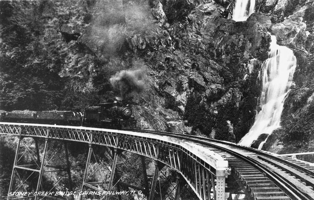 Stony Creek Falls and bridge, Cairns District. This image depicts a train passing the Stoney Creek Falls bridge passing the cataracts of the falls to the right.